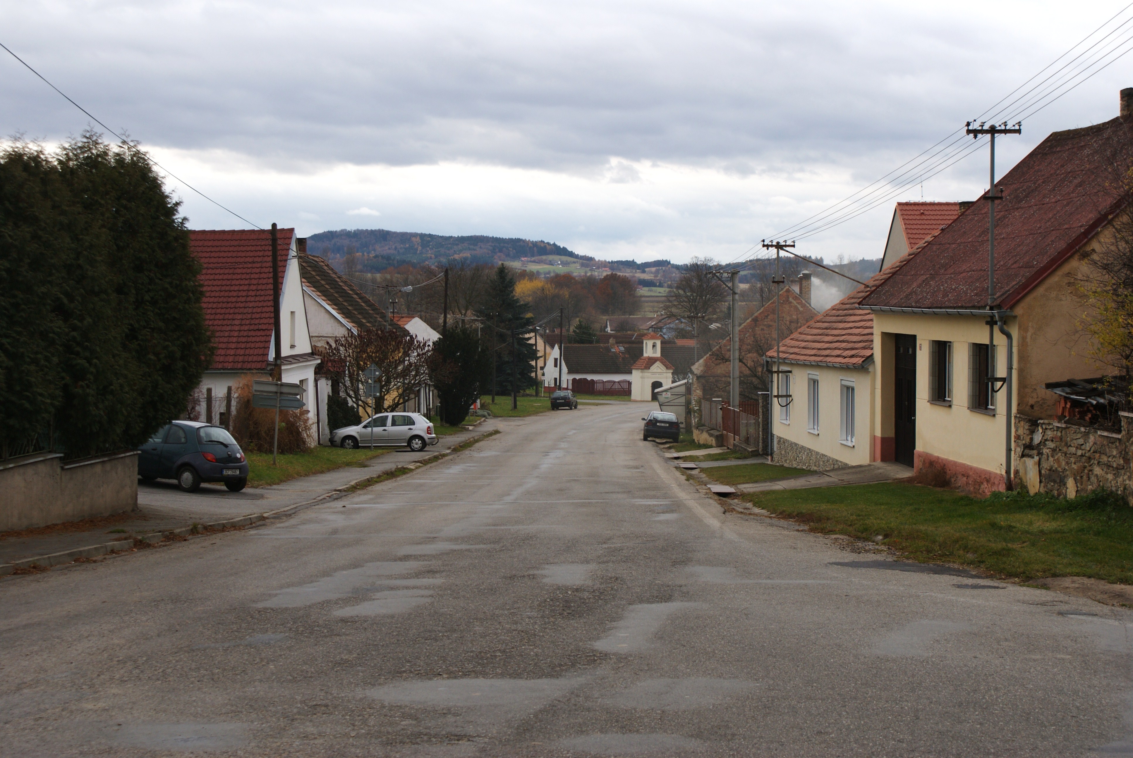 Újezd (Vodňany), a village in Strakonice District, Czech Rep., a view of the village common.